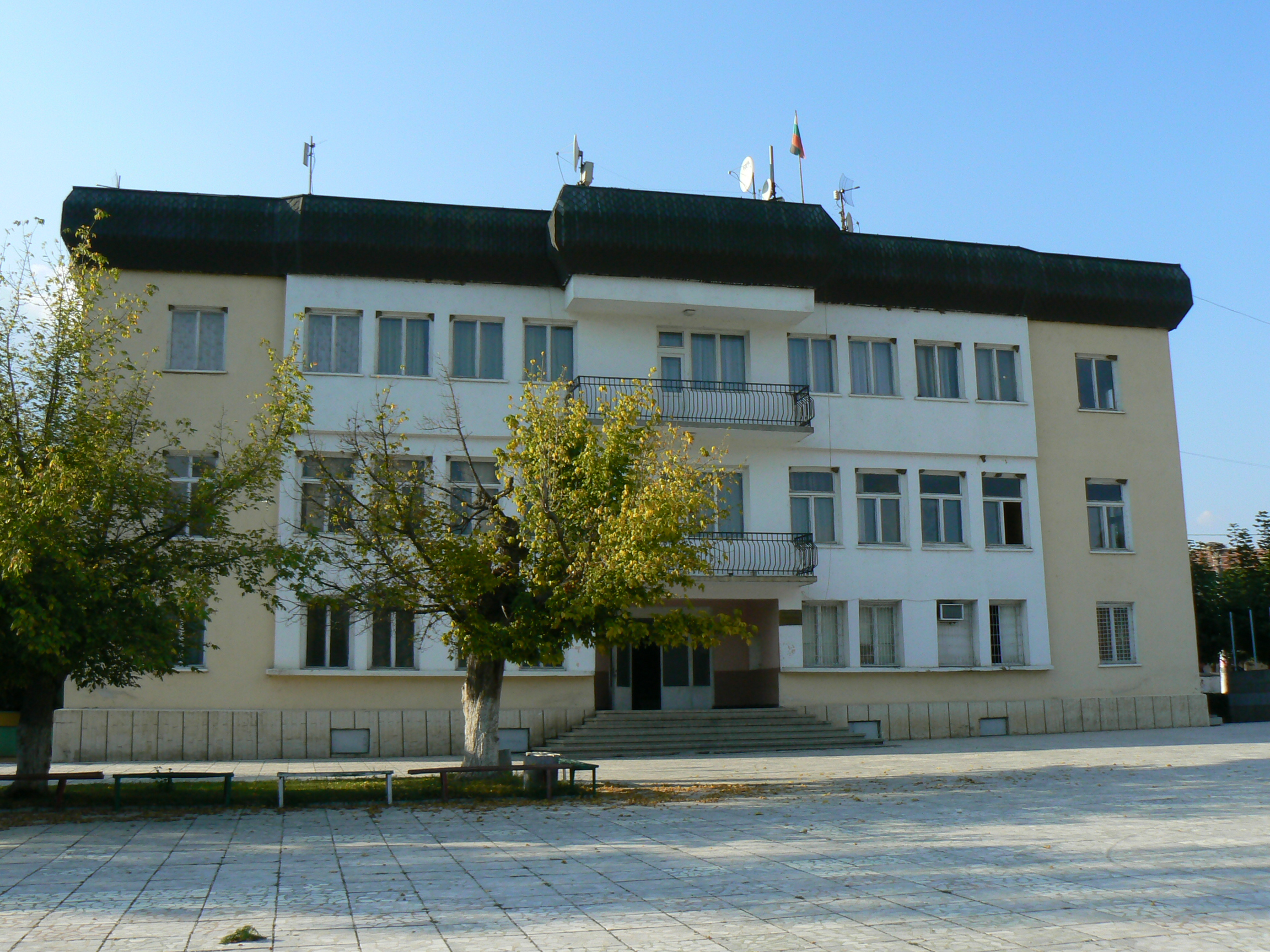 The mayor's office in Parvomay village, Blagoevgrad District, Bulgaria